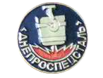 Badge Dneprospetstal